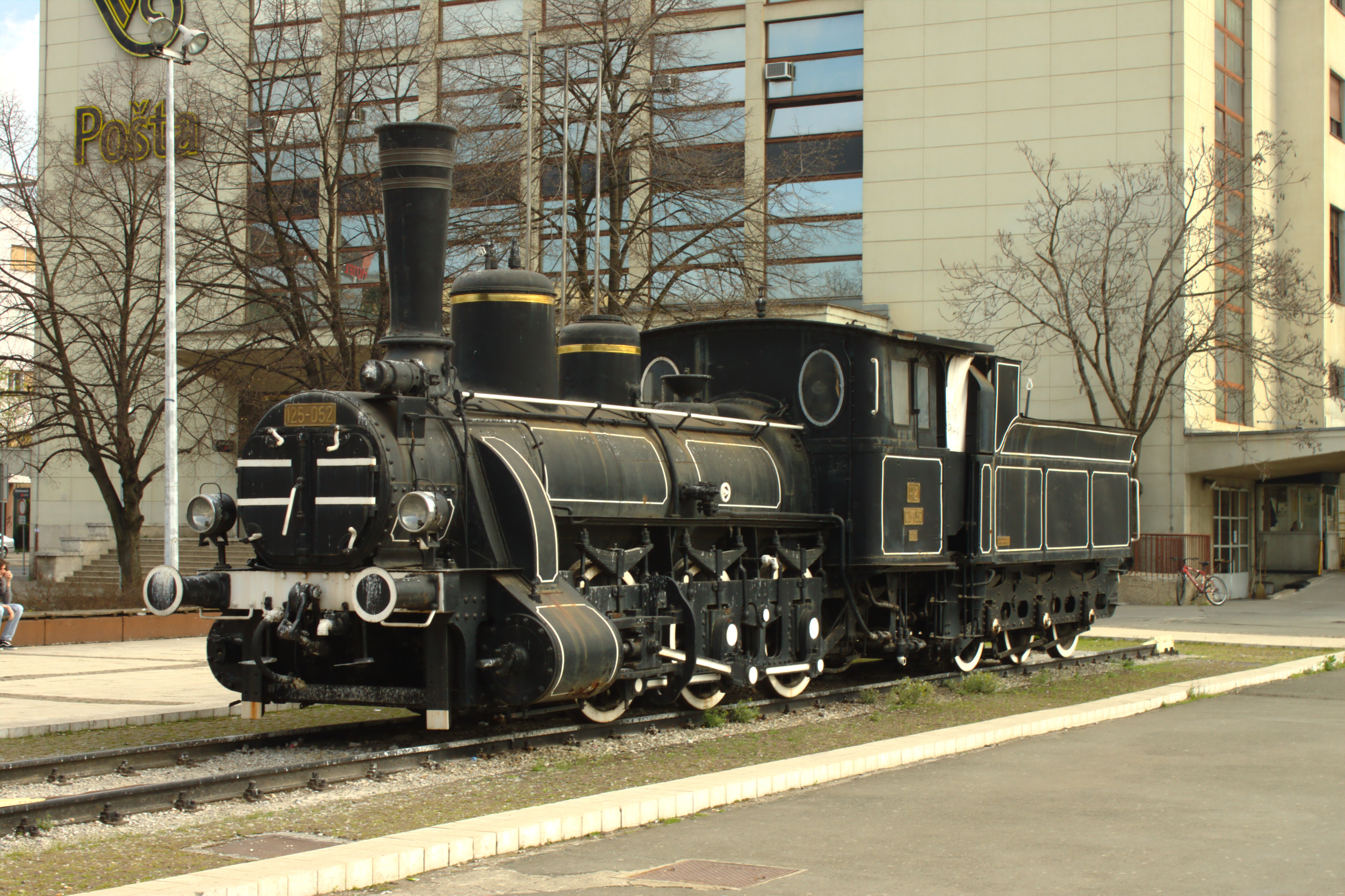 A steam locomotive on public display in front of the building of the main Zagreb train station, Croatia